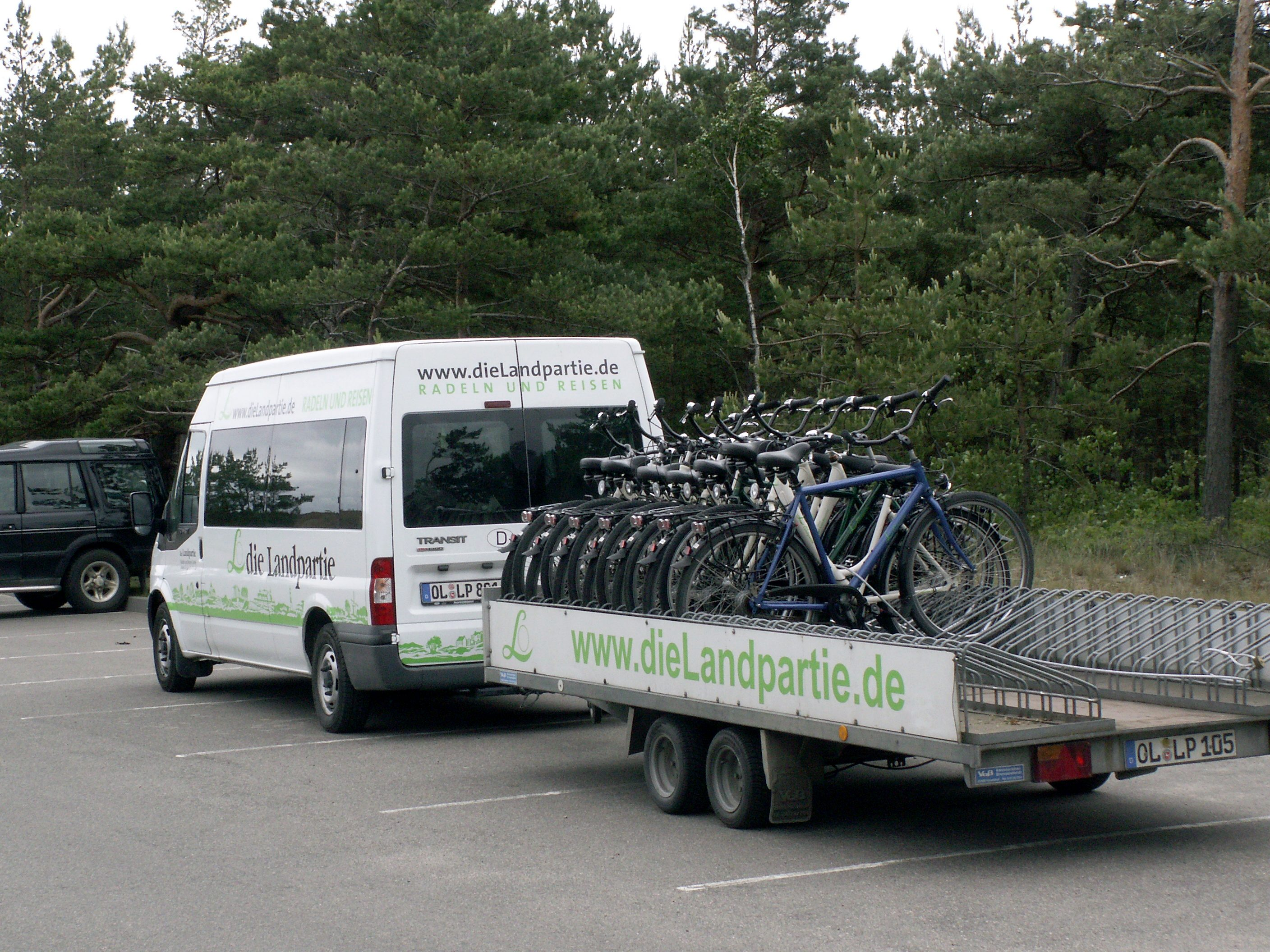 Way of bicycles in Neringa district, Lithuania